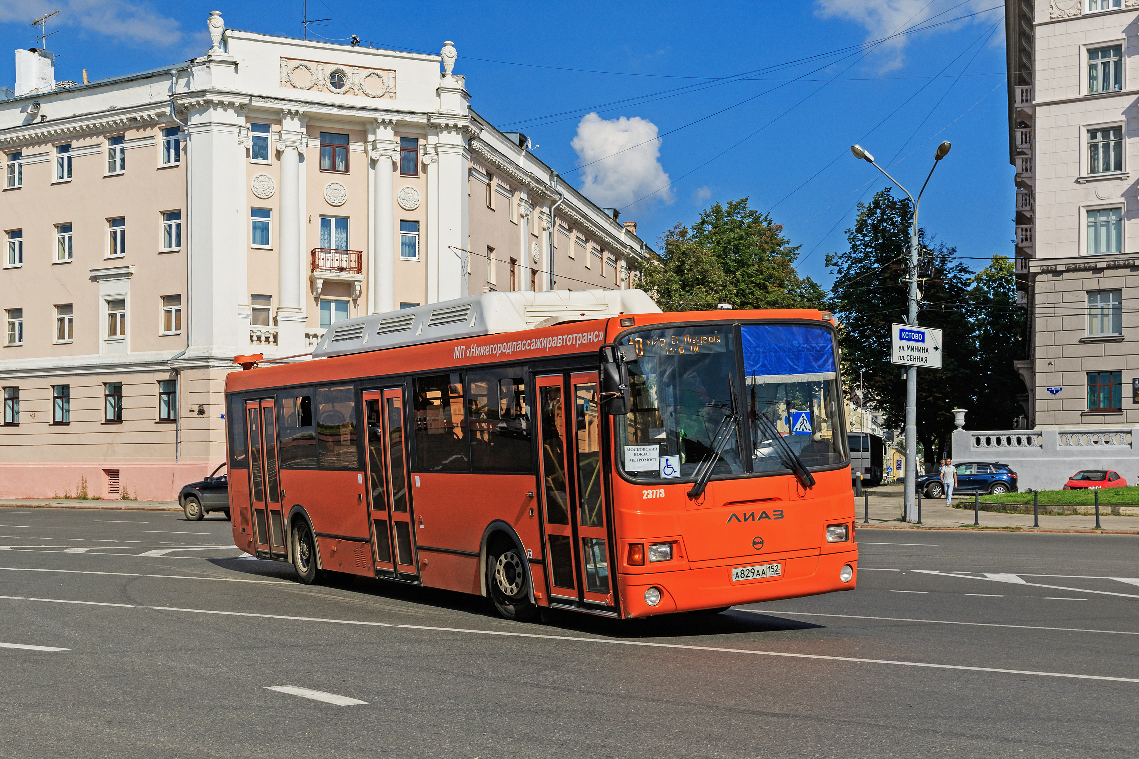 LiAZ-5293 bus at Minin and Pozharsky Square. Nizhny Novgorod, Russia.